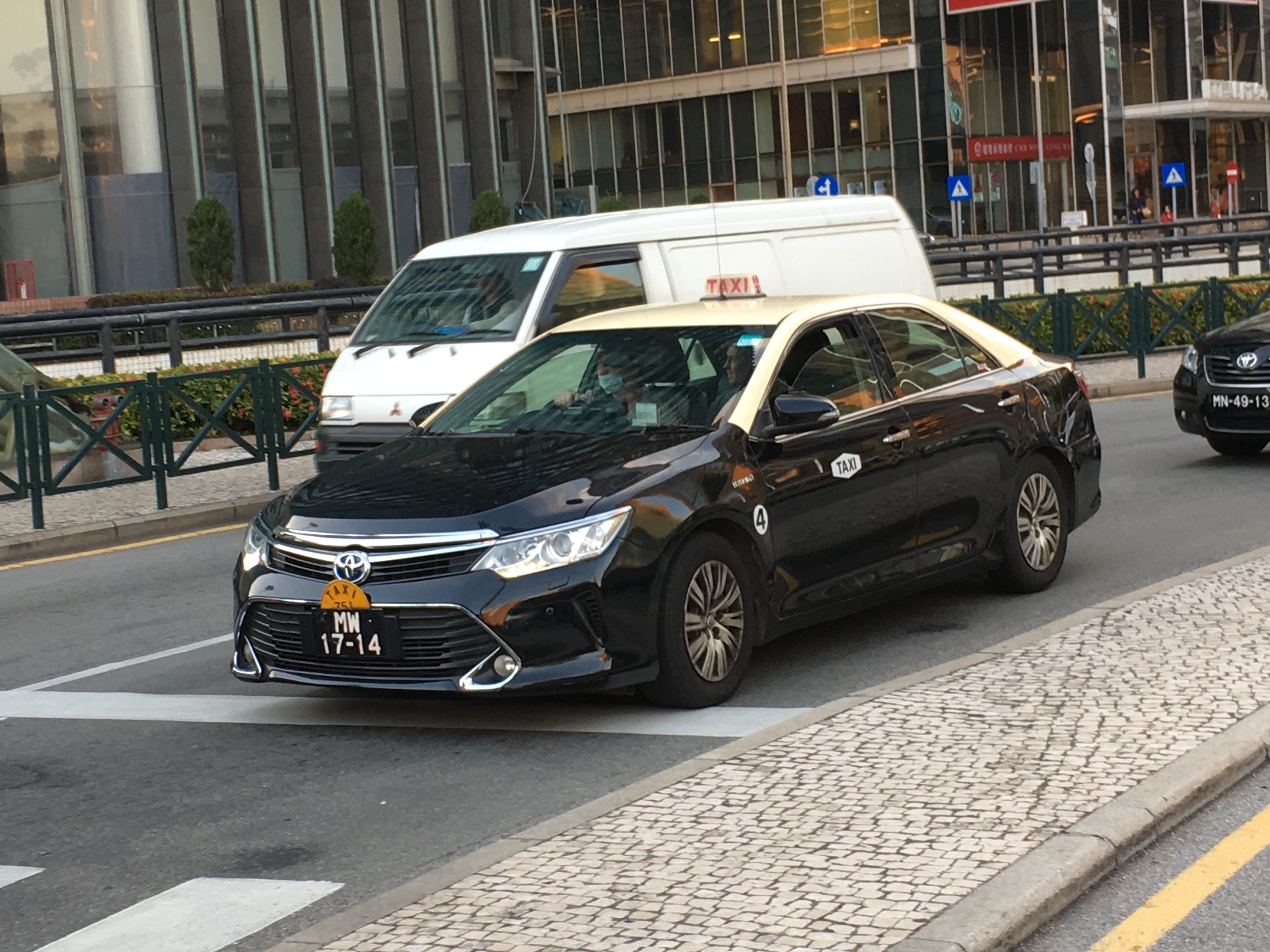 中文（香港）: This photo is taken in PRAÇA FERRIRA AMARAL.